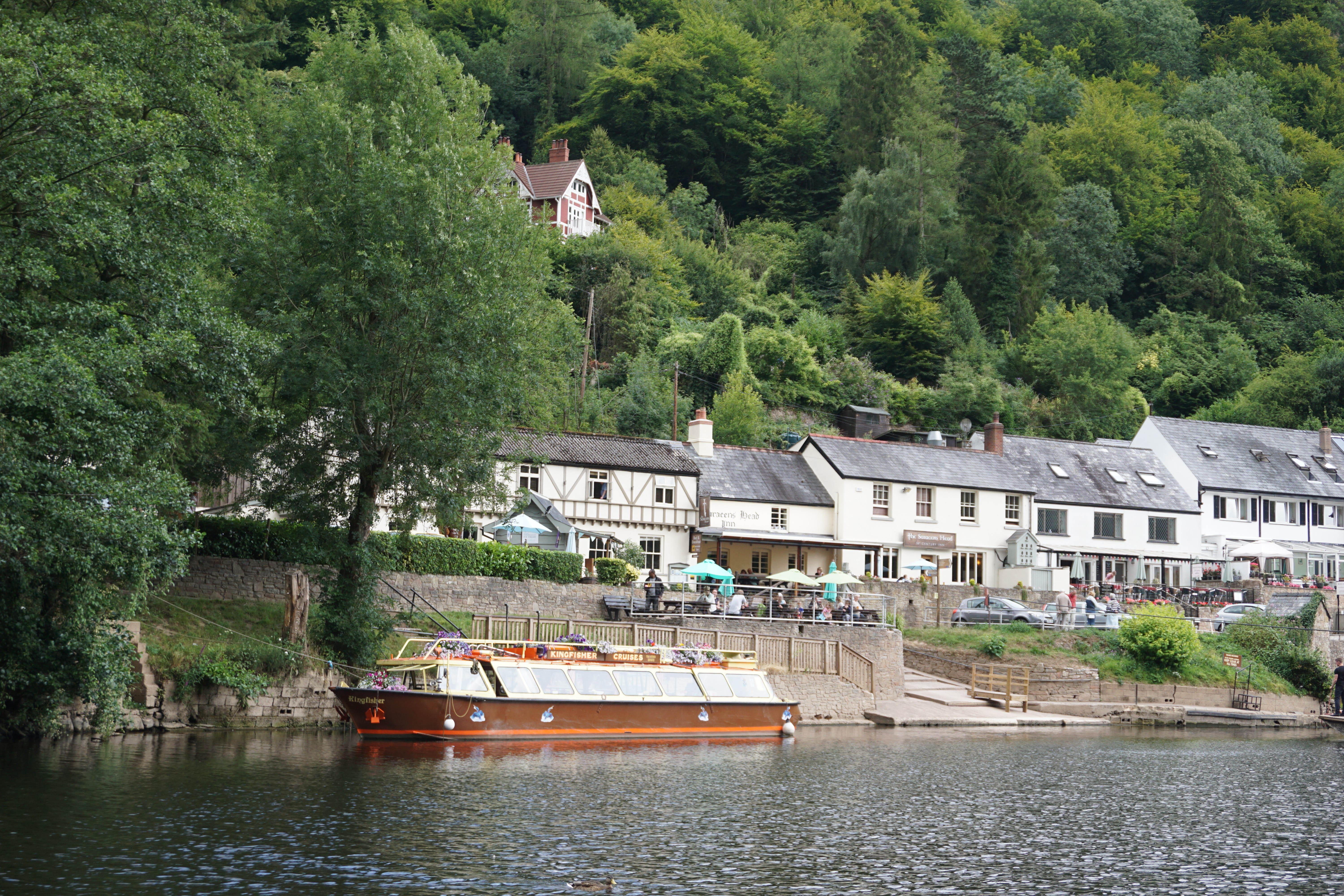 View over the Wye